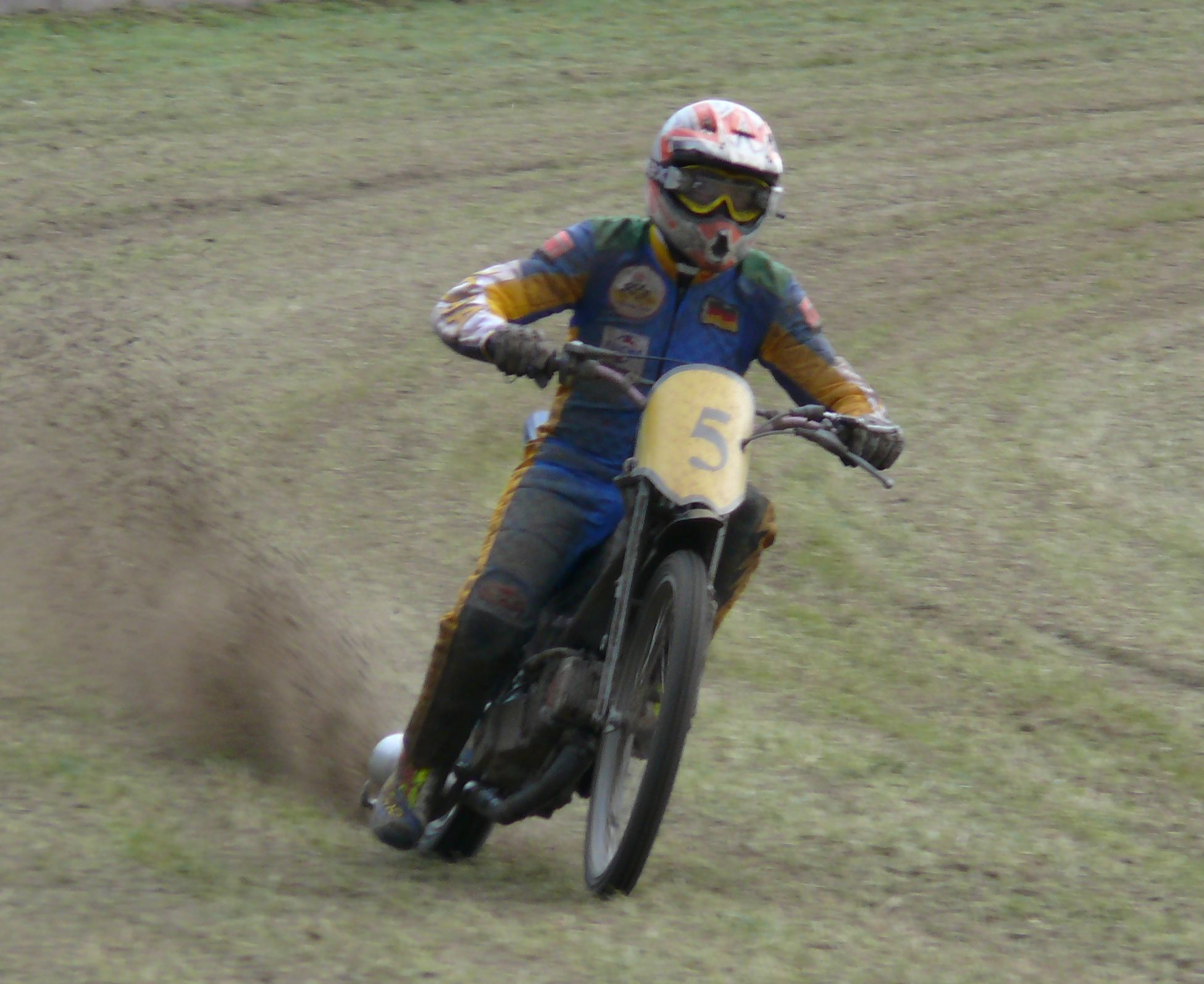 Roberth Barth 2007 Enrico Janoschka